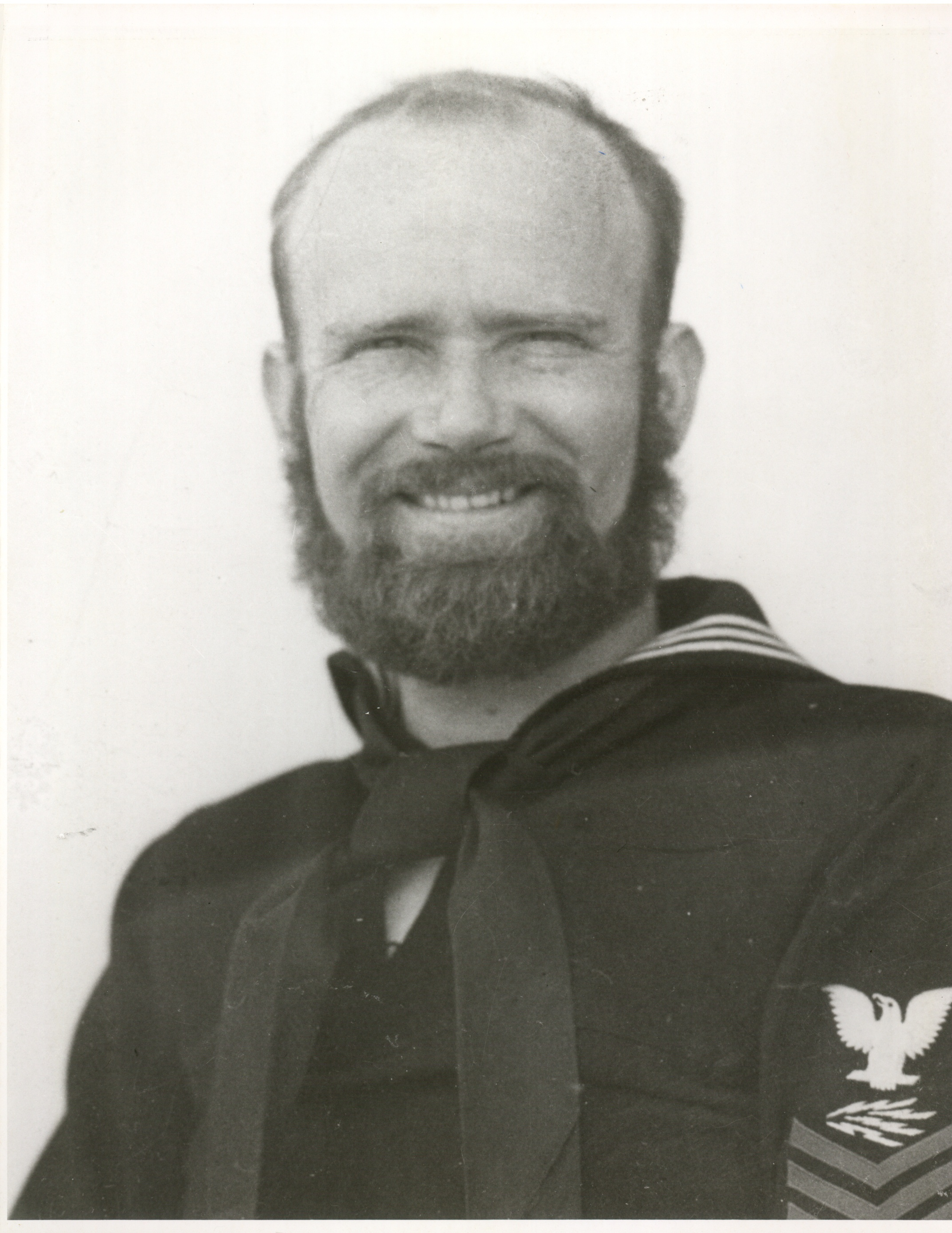 Radioman 1st Class Benjamin A. Bottoms. U.S. Coast Guard photo.